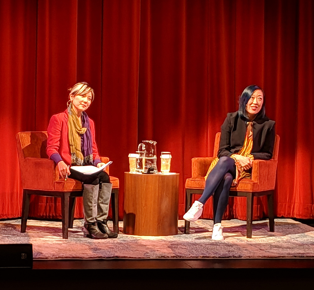 Young Jean Lee (right) interviewed by Crowded Fire artistic director Mina Morita at the San Francisco Jewish Community Center on Feb. 5, 2019.